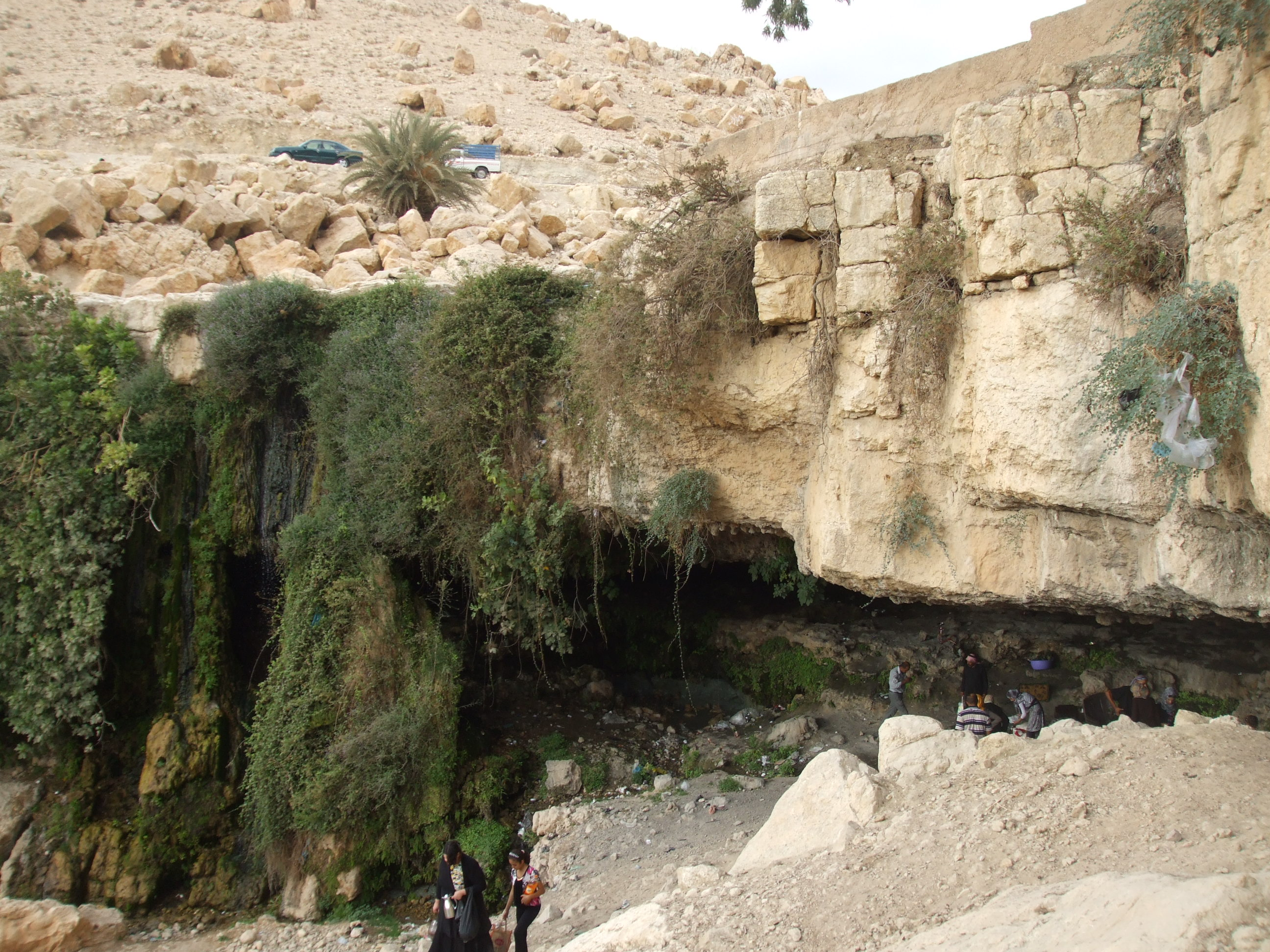 Mouses springs in Madaba governorate, Jordan